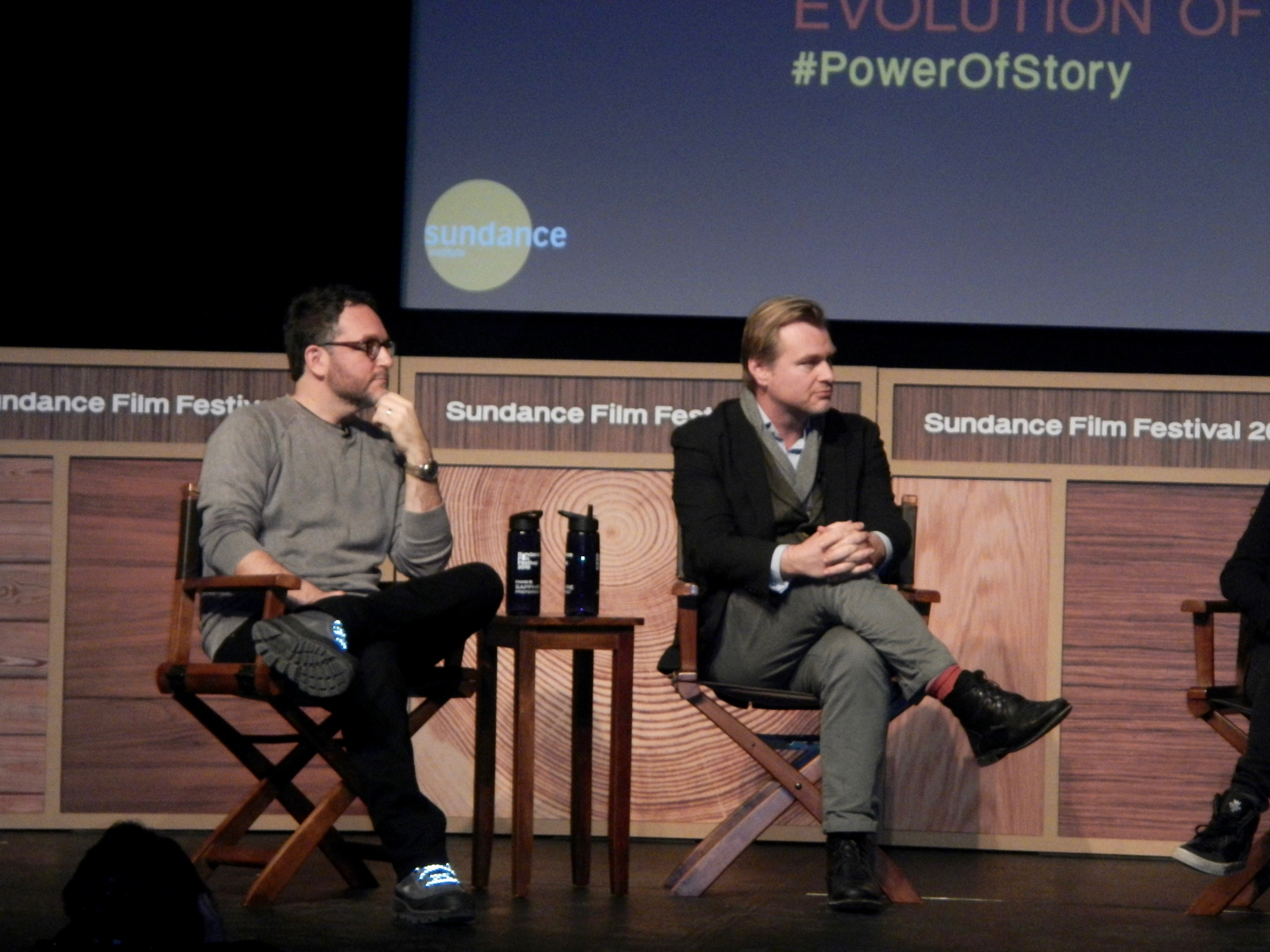 "Power of Story: The Art of Film," 2016 Sundance Film Festival, Park City UT